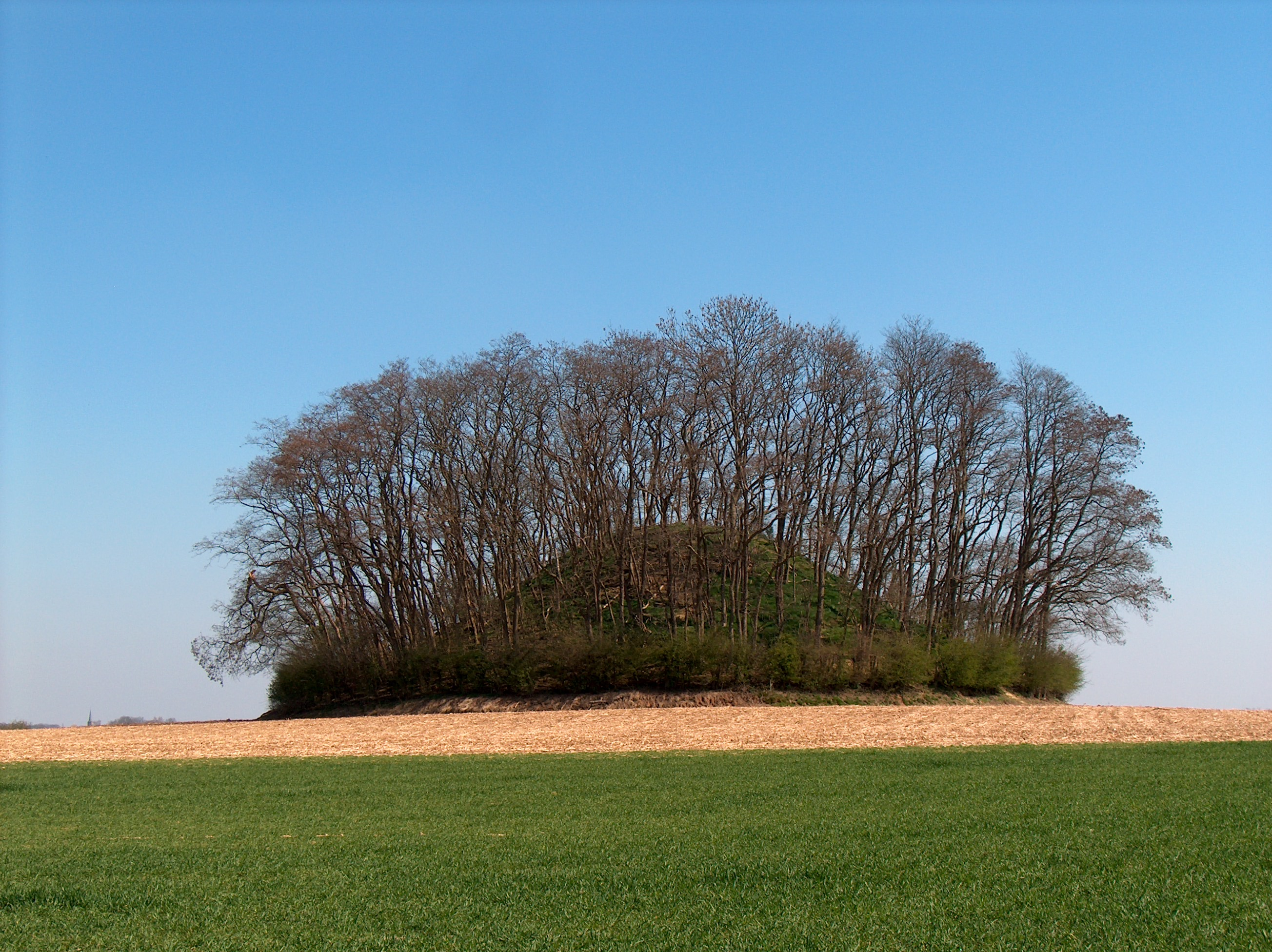 The Tumulus d'Hottomont, Grand-Rosière-Hottomont, Walloon Brabant, Belgium.